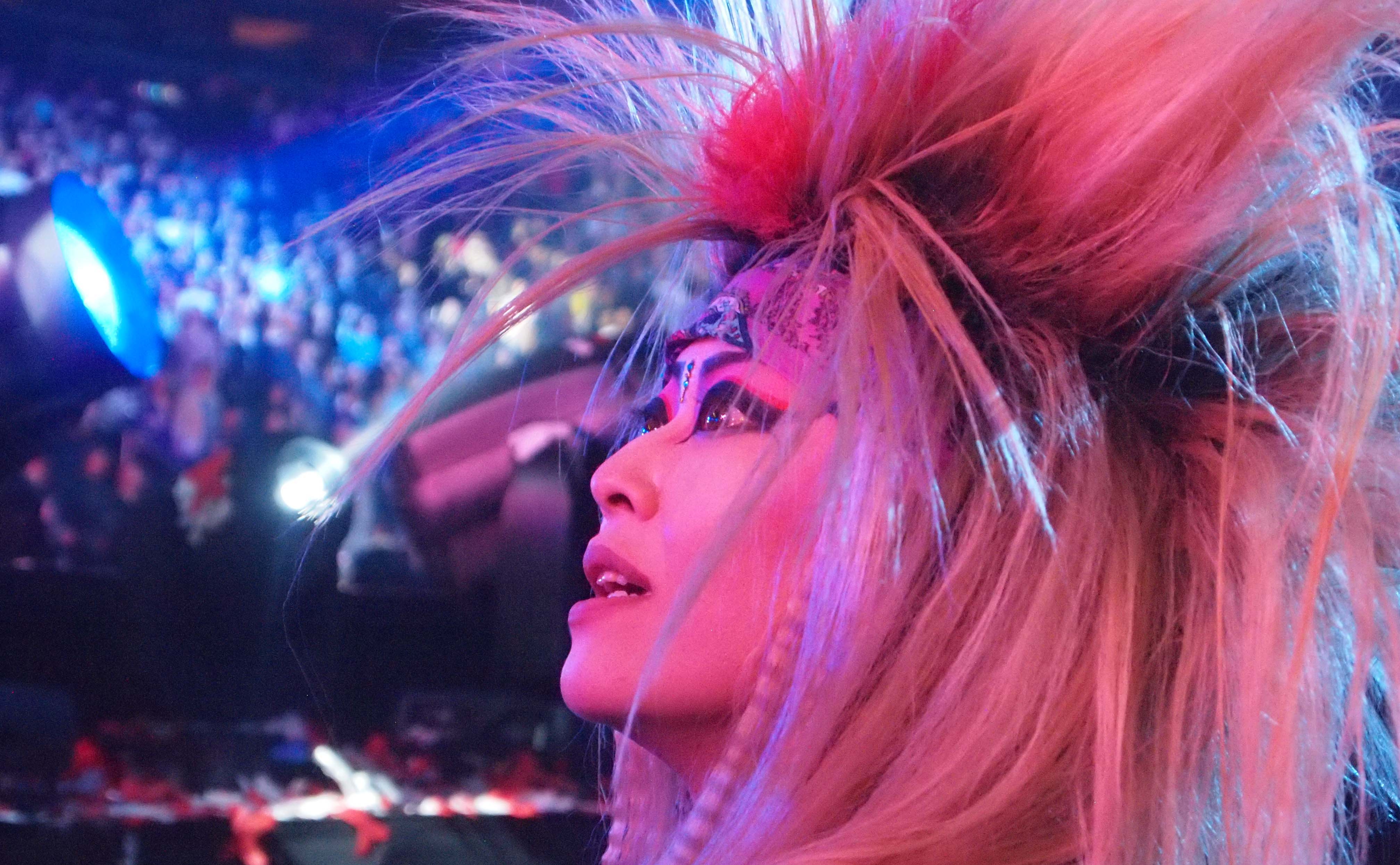 hide cosplayer at X Japan's Madison Square Garden concert in 2014